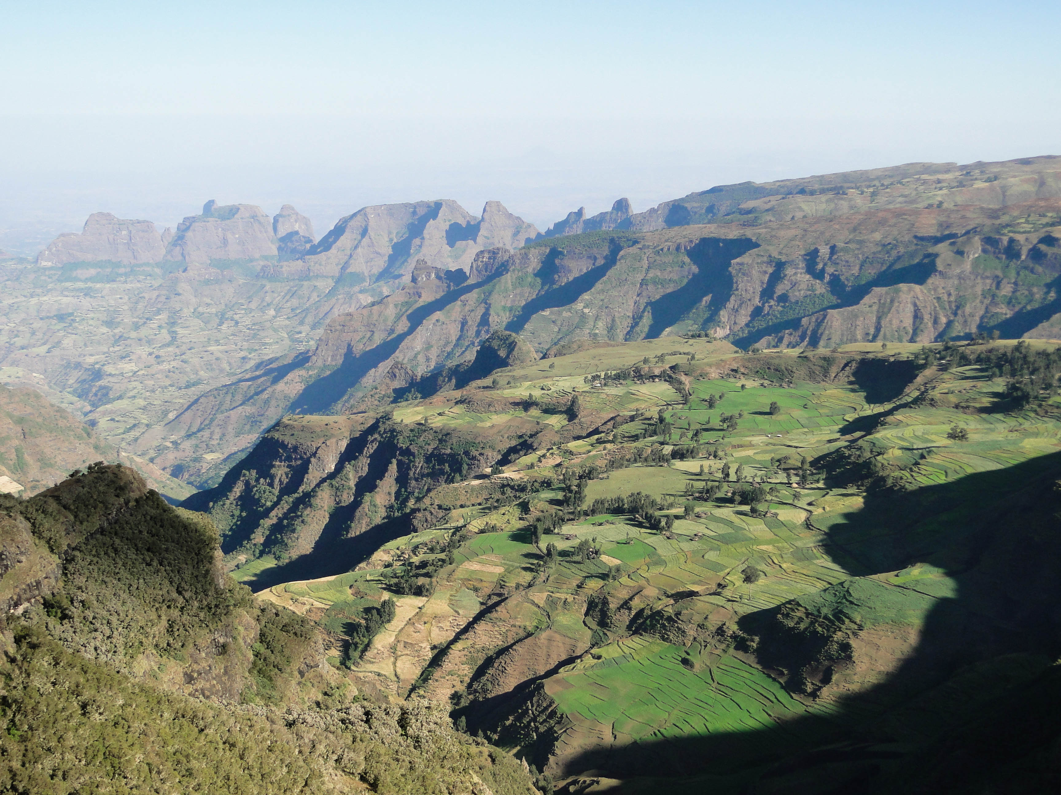 Simien Mountains National Park, Ethiopia